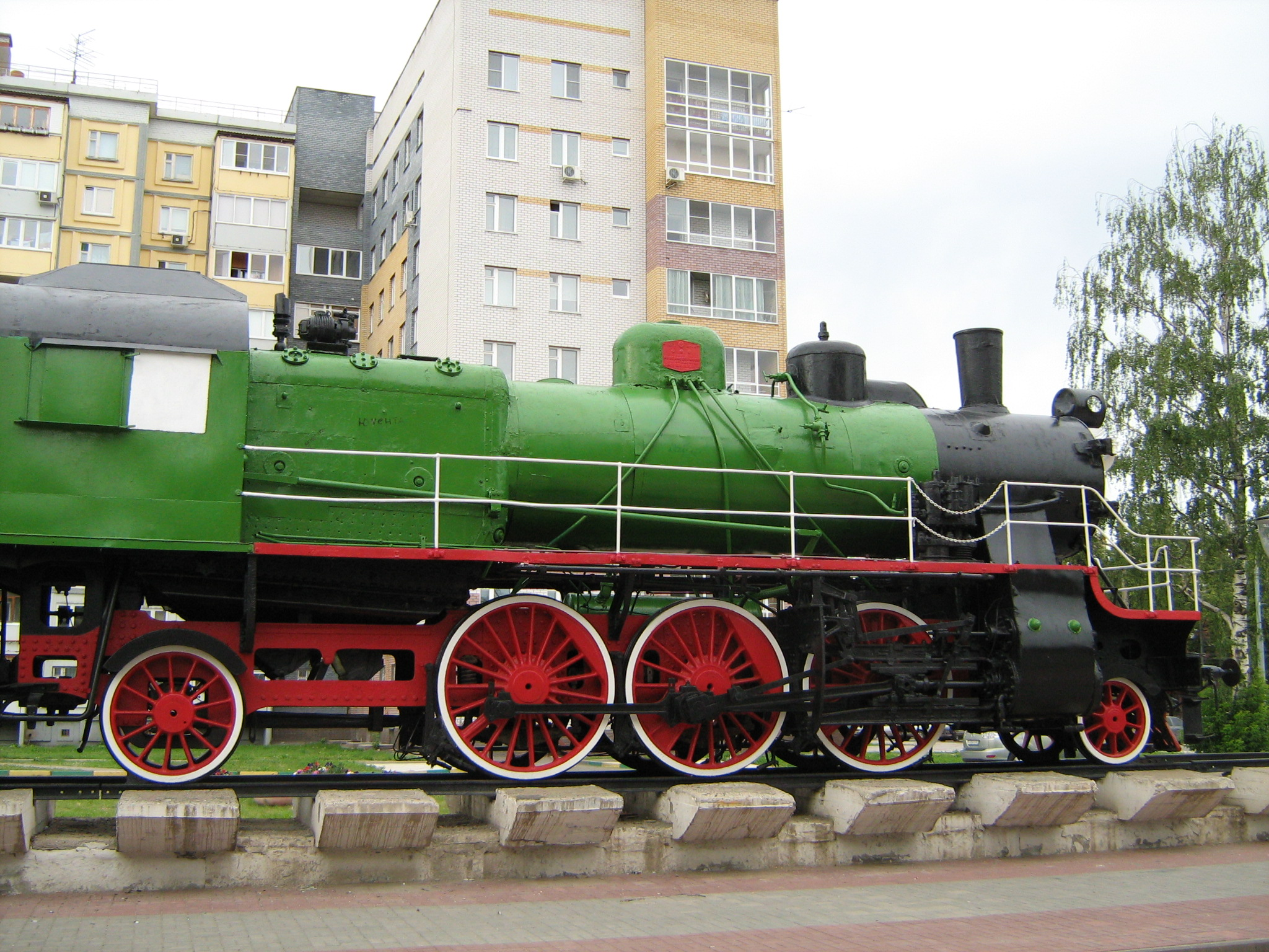 Steam locomotive Su 251-32 installed in 1980 as a monument in Sormovo center